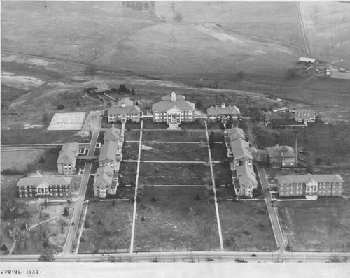 Description: Aerial view of James Madison University from 1937. Source: James Madison University Author: Frank Turgeon, Jr. Public domain explanation If you carefully notice, there is a date in the lower left hand corner. This actually says "Spring 1937'. Reseaching the URL this photograph is in the special collections at James Madision University. On the the back is the text 'Frank Turgeon, Jr., Palm Beach FLA'. Researching both subject and photographer we learn that the copyright was not renewed.